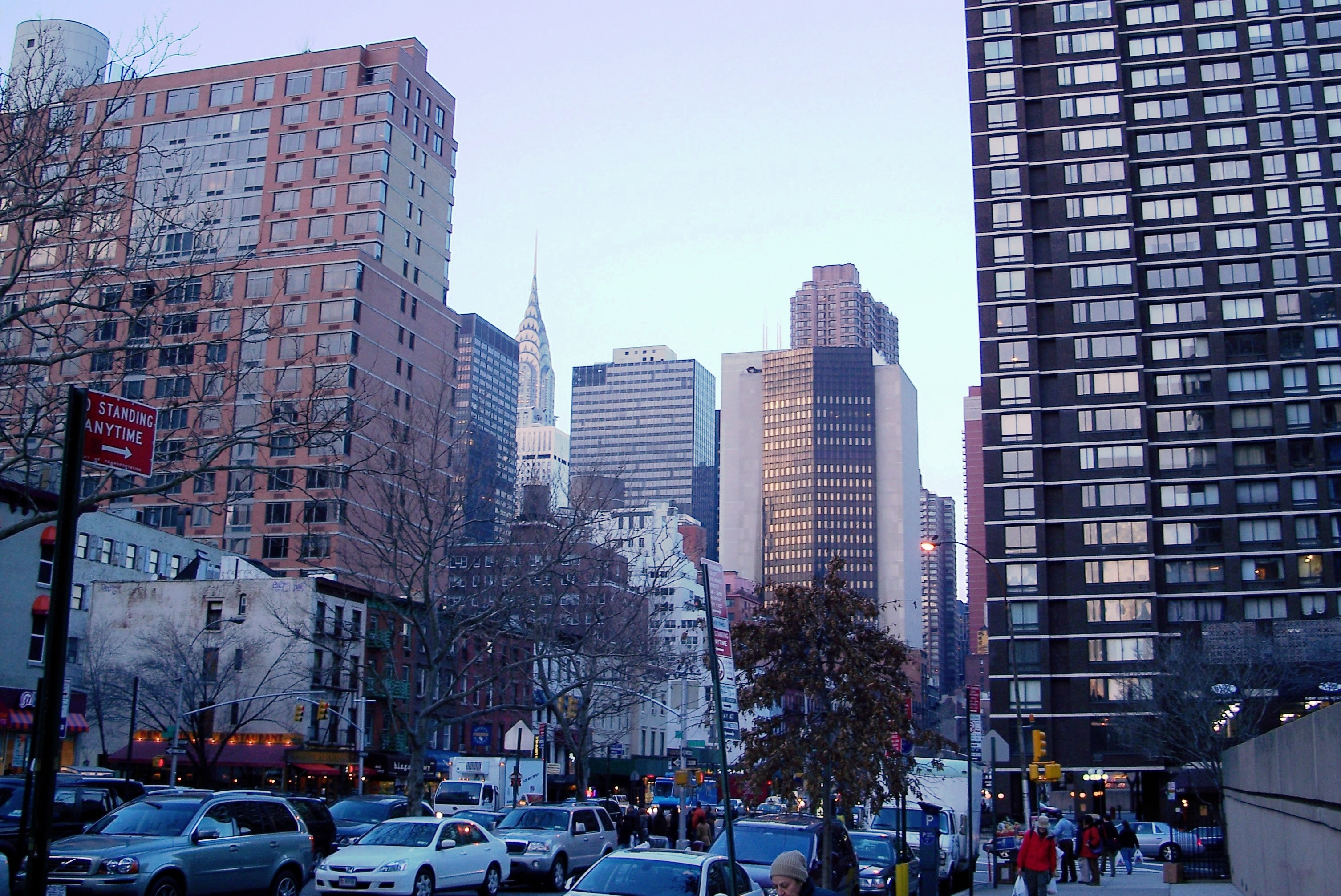 The view from the Kips Bay Mall in Manhattan, New York City